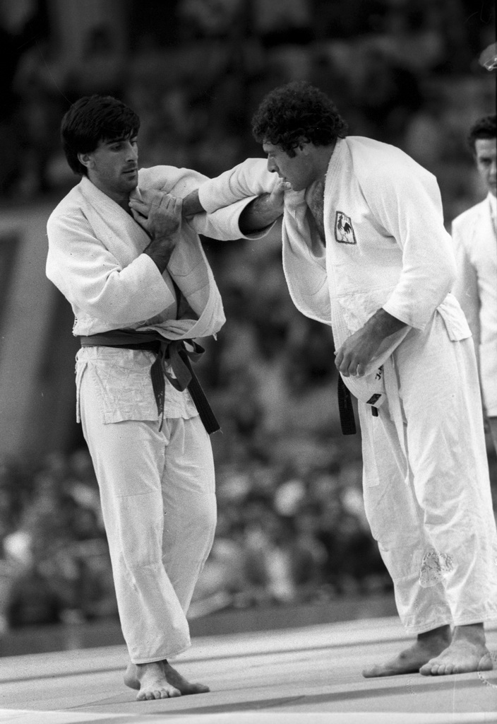 “Judoists Bernard Tchoullouyan and Ignacio Sanza during their match”. A Judo match (78 kg weight category). Bronze medal winner of the 1980 Summer Olympics Bernard Tchoullouyan (right) of France and Ignacio Sanza of Spain. XXII Summer Olympics. Central Lenin Stadium (now Luzhniki Stadium) in Moscow.